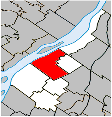 Location of Verchères, Quebec within Lajemmerais Regional County Municipality.